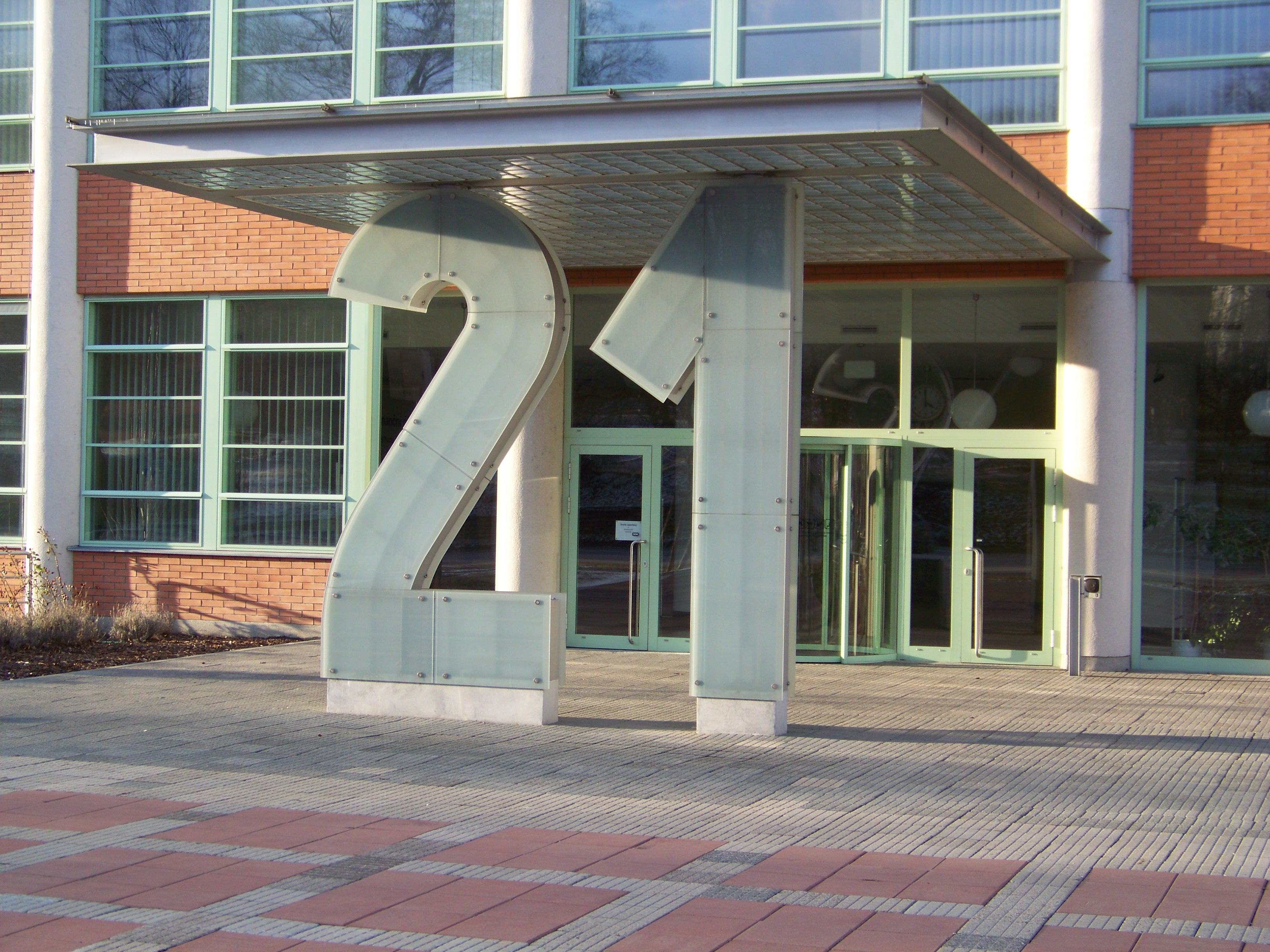 Number 21 in front of the Baťa's scryscraper in Zlín.